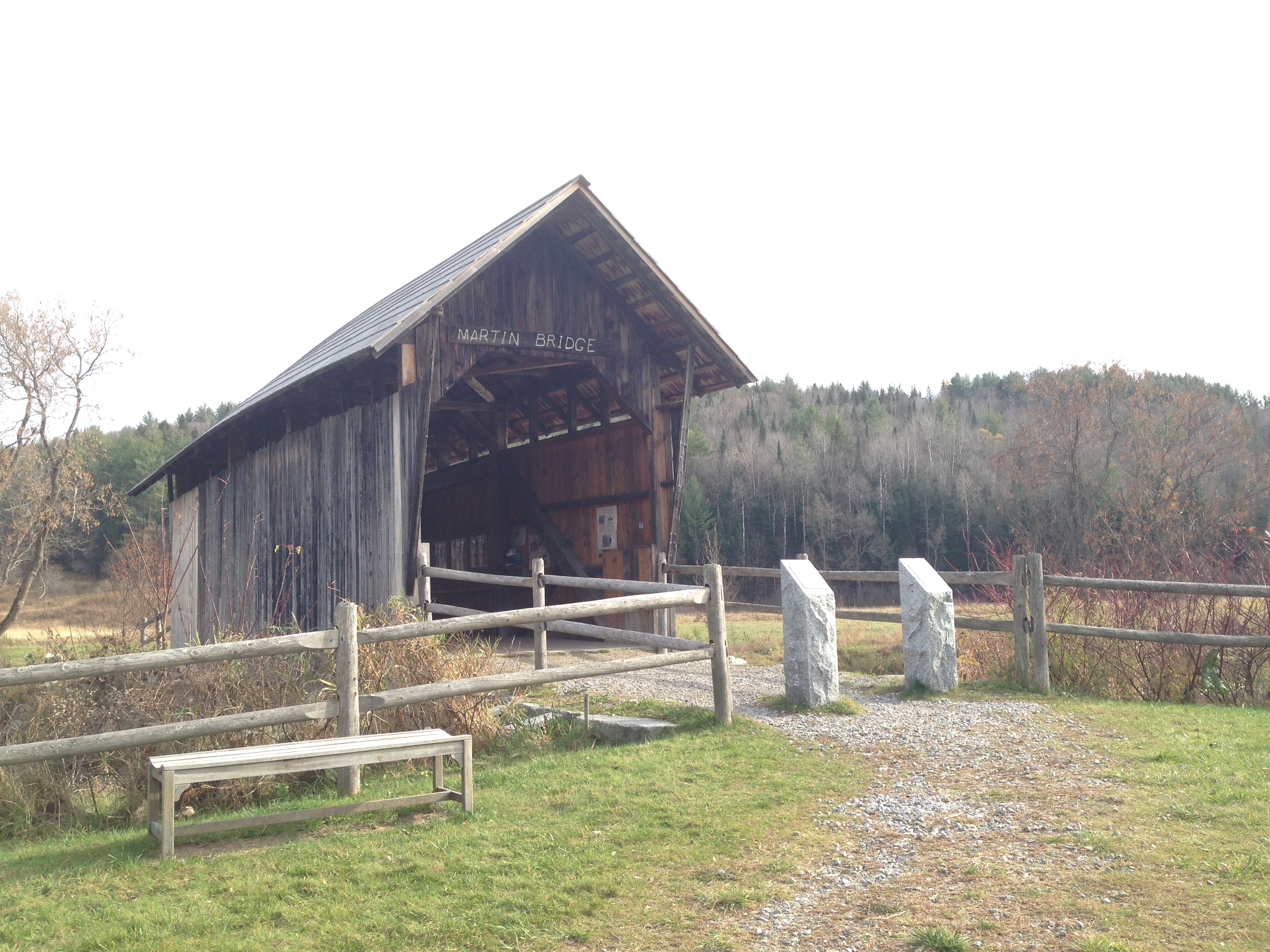 On Route 2 in Marshfield Vermont. The only original covered "farm" bridge left in Vermont. Originally built in 1890. Restored in 2004.